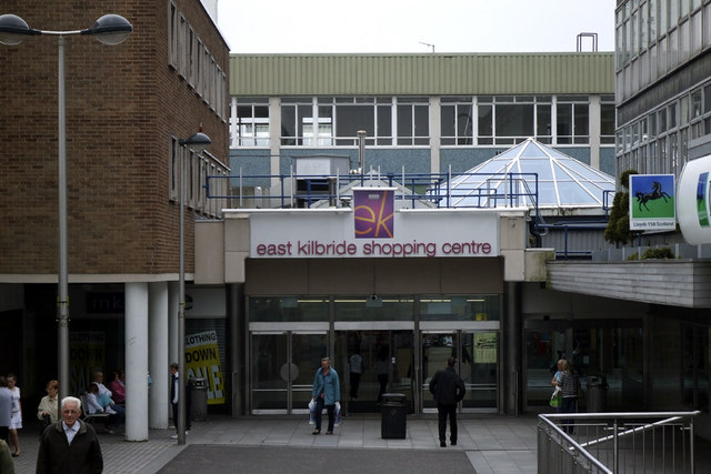 East Kilbride Shopping Centre Entrance